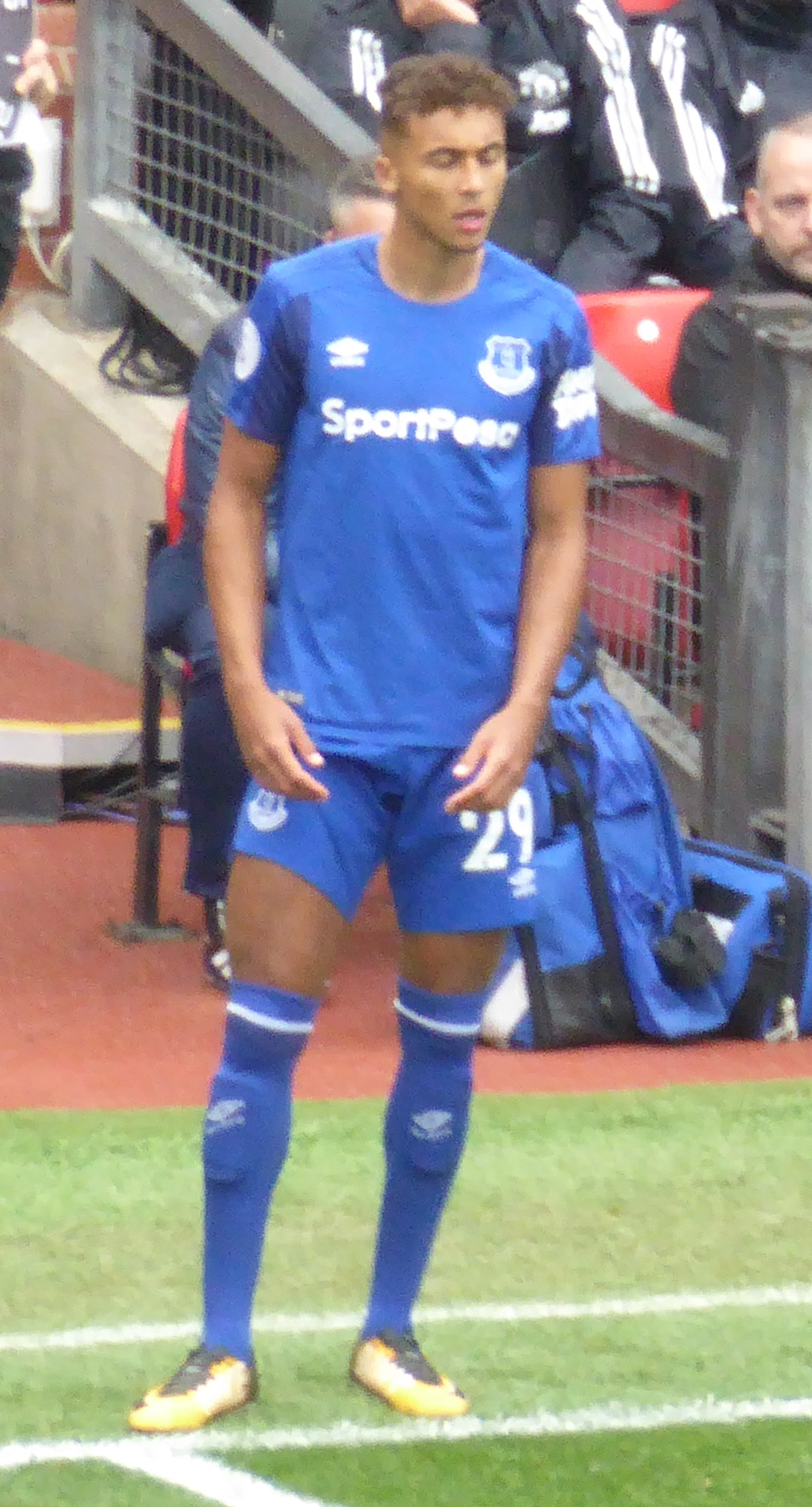 Manchester United v Everton (4-0), Premier League, Old Trafford, Manchester, Greater Manchester, England, 17 September 2017